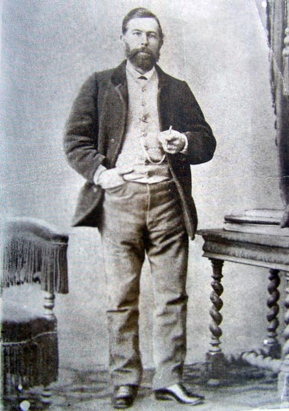 Photograph of Antonio Gálvez Arce "Antonete", Spanish farmer, politician and revolutionary, one of the leading figures of federal republicanism in the last third of the 19th century.